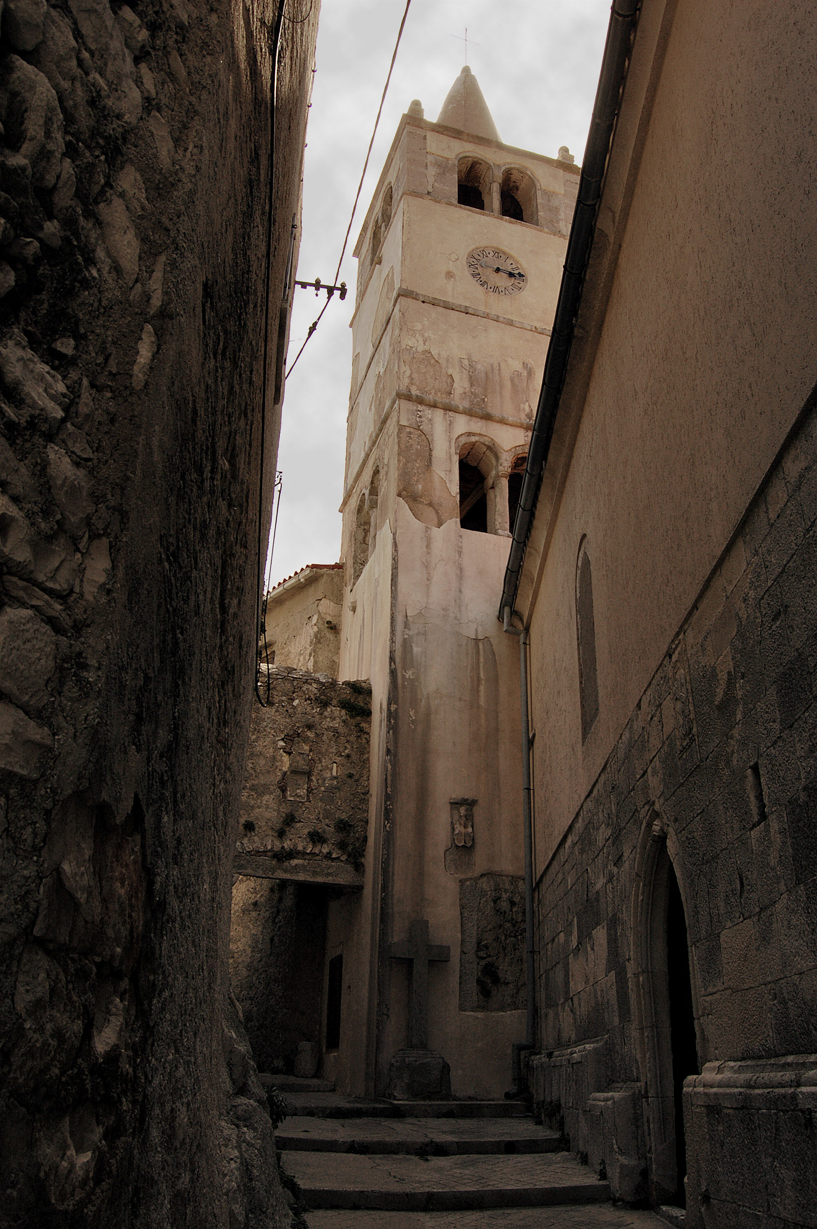 The church St George the Elder in Plomin, Croatia.